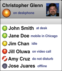 Indicators or icons are commonly used in unified communications clients to indicate a user's "presence," such as their ability to communicate via phone, text, instant messaging, video or application sharing.